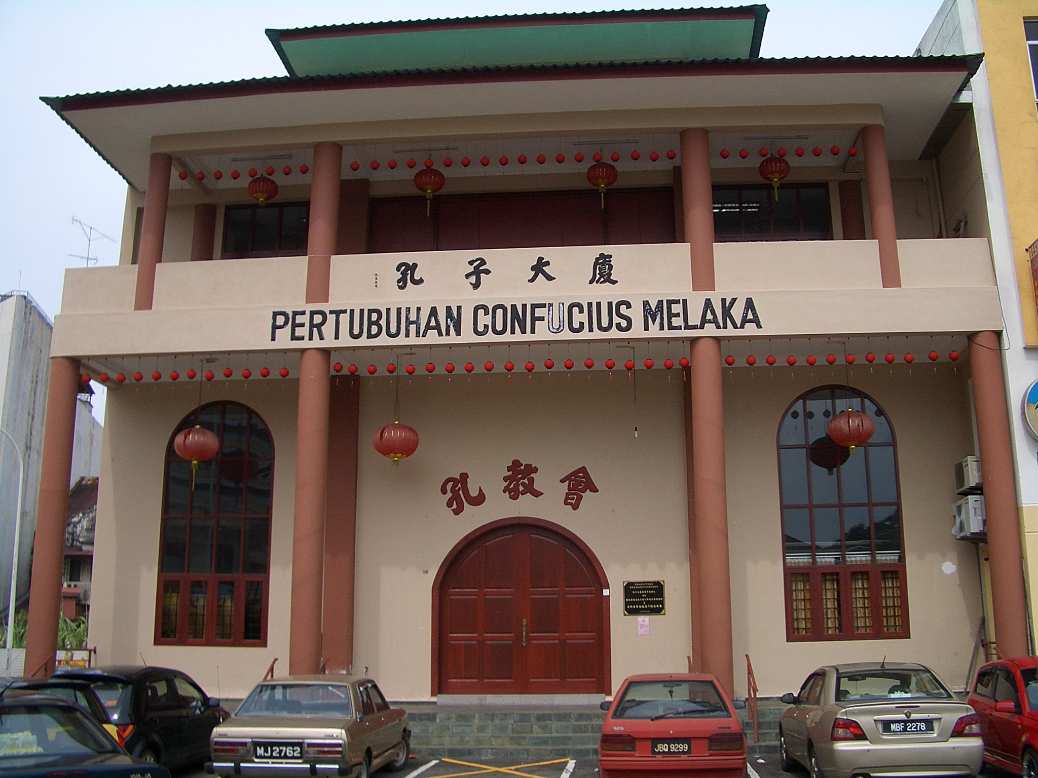 Confucian Center in Malacca (Melaka) (on the NW outskirts of the historic Chinatown)